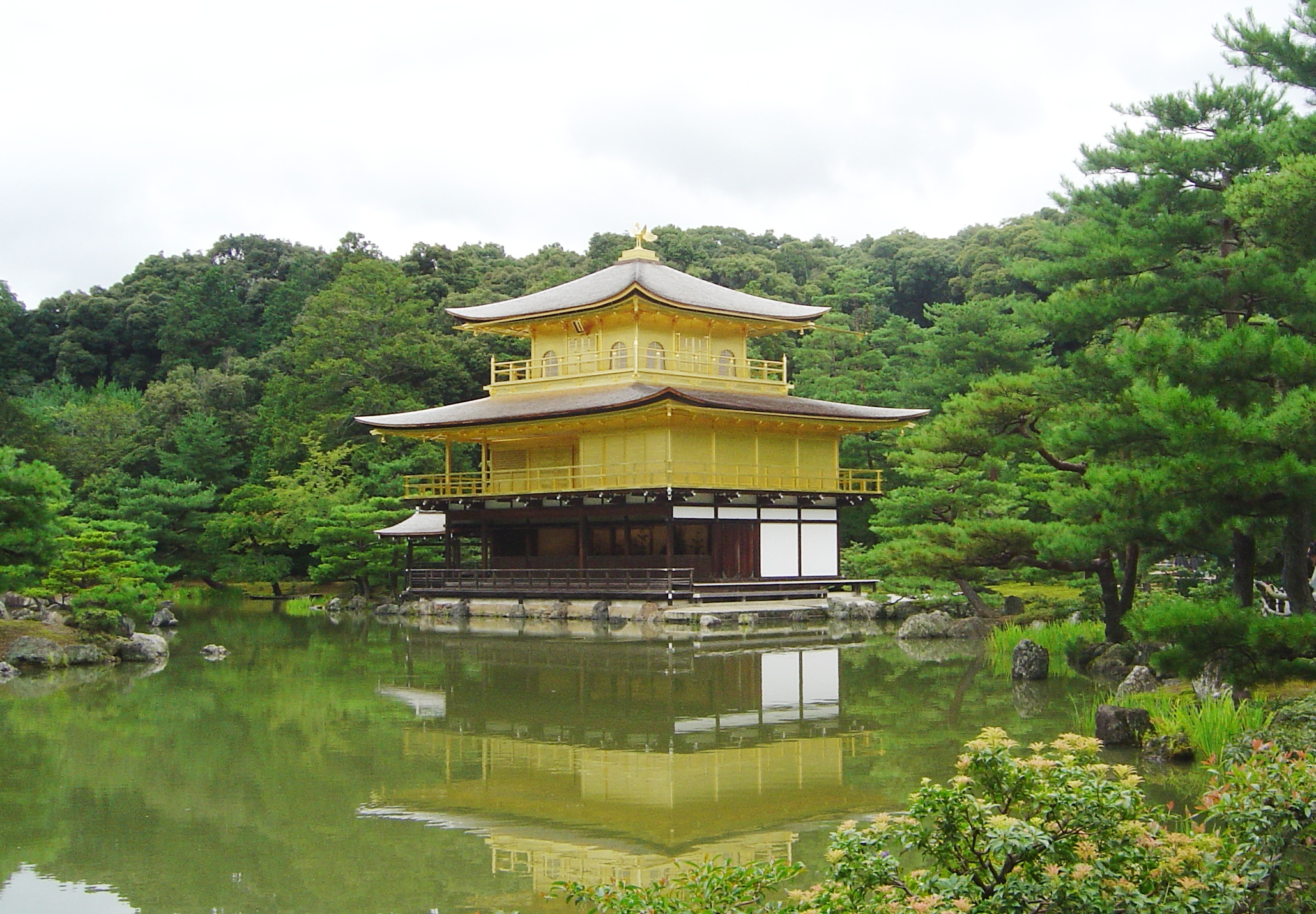 the Kinkaku-ji or "temple of the Golden Pavilion" in Kyoto, Japan.